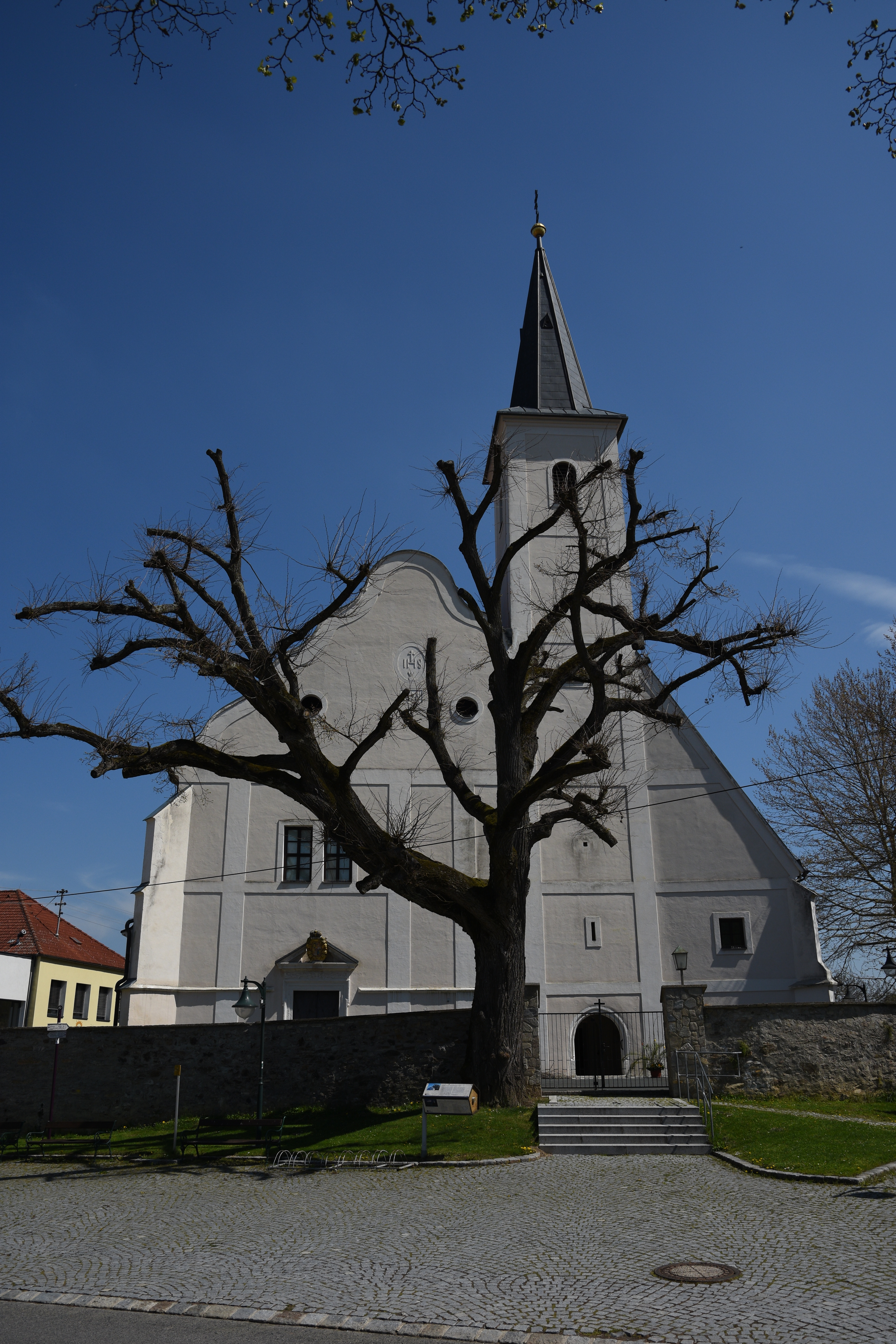 Church Wallfahrtskirche Mariae Geburt, Rattersdorf-Liebing